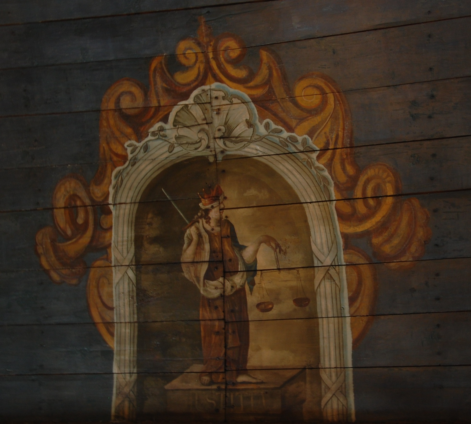 Painting in the ceiling of the sacristy in Oslo Cathedral (Oslo domkirke). The paintings are from apr.1720.